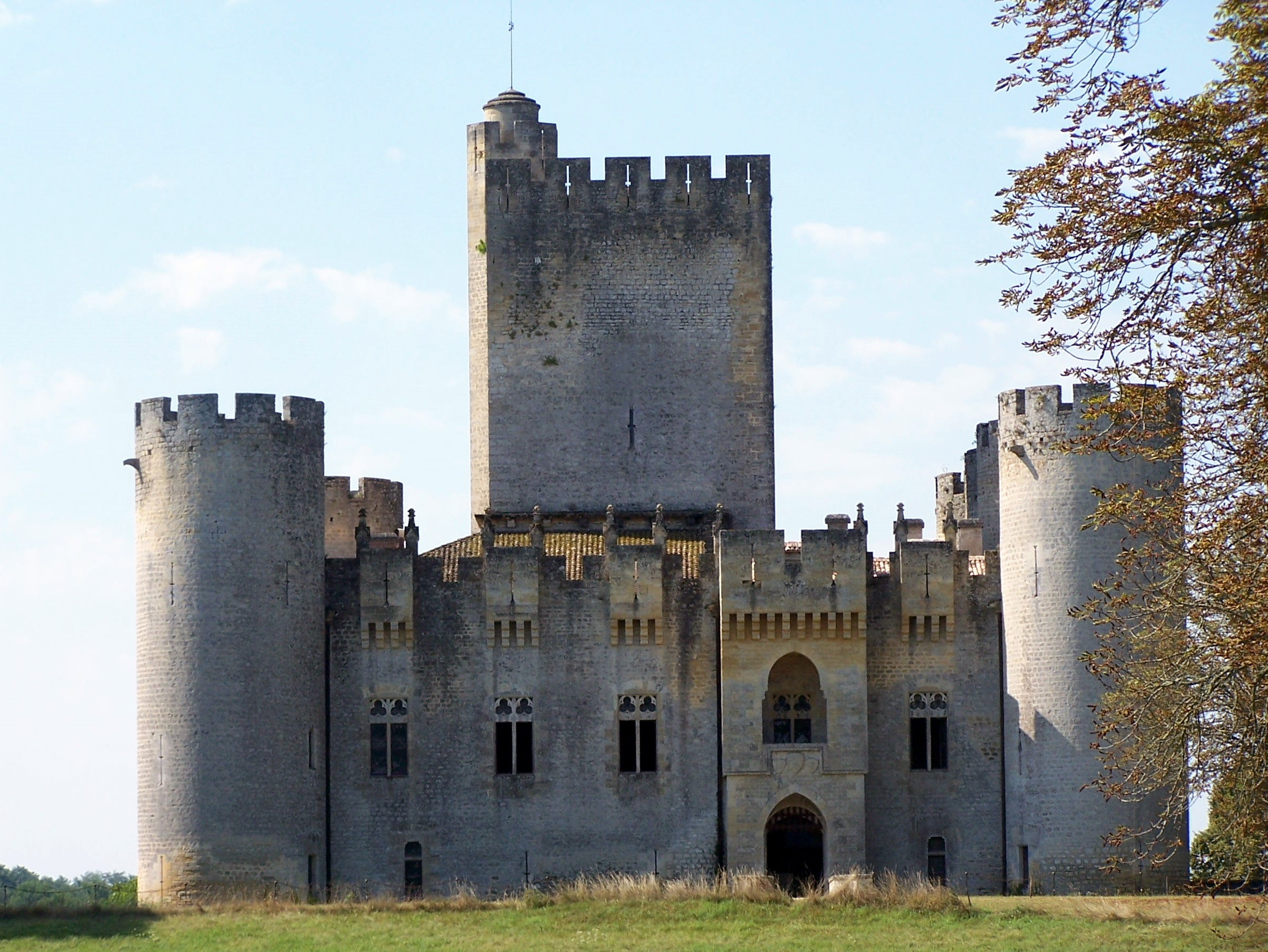 New castle of Roquetaillade in Mazères (Gironde, France)